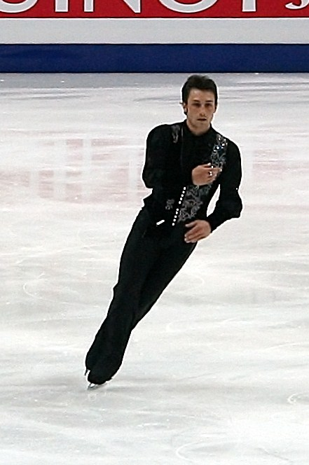 Brian Joubert at the 2011 World Figure Skating Championships